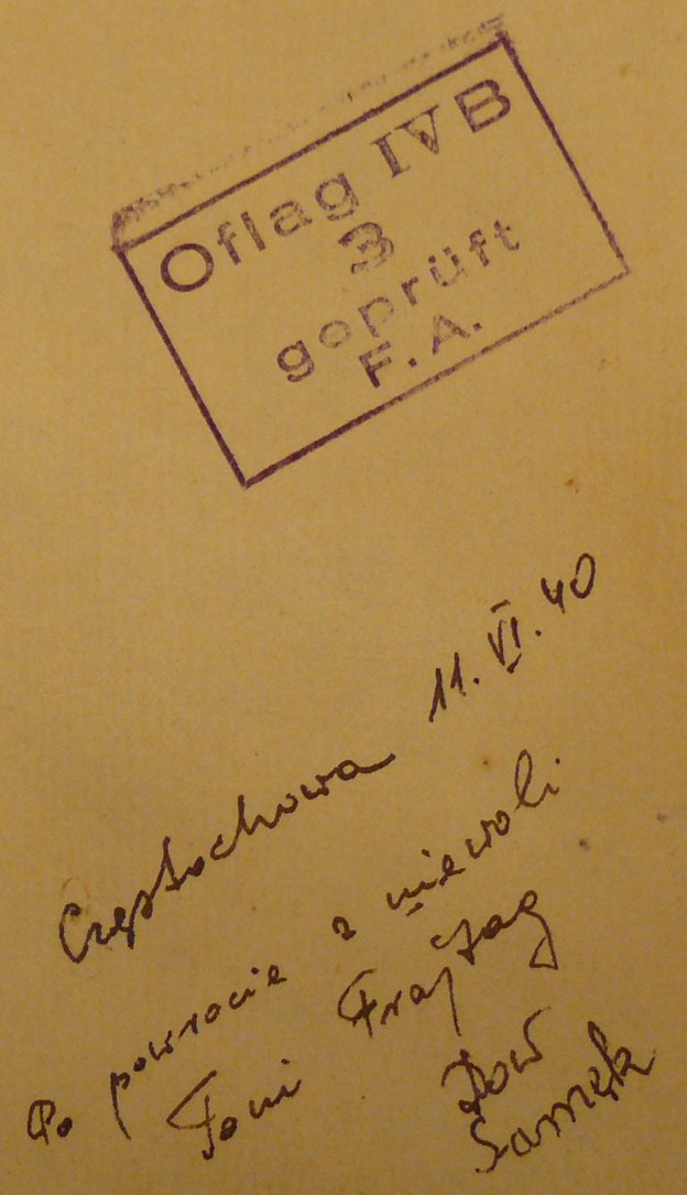 Oflag IVB Konigstein.